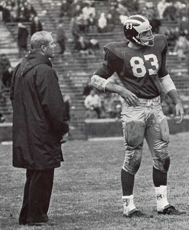 Photograph of Bump Elliott and Rocky Rosema (right)